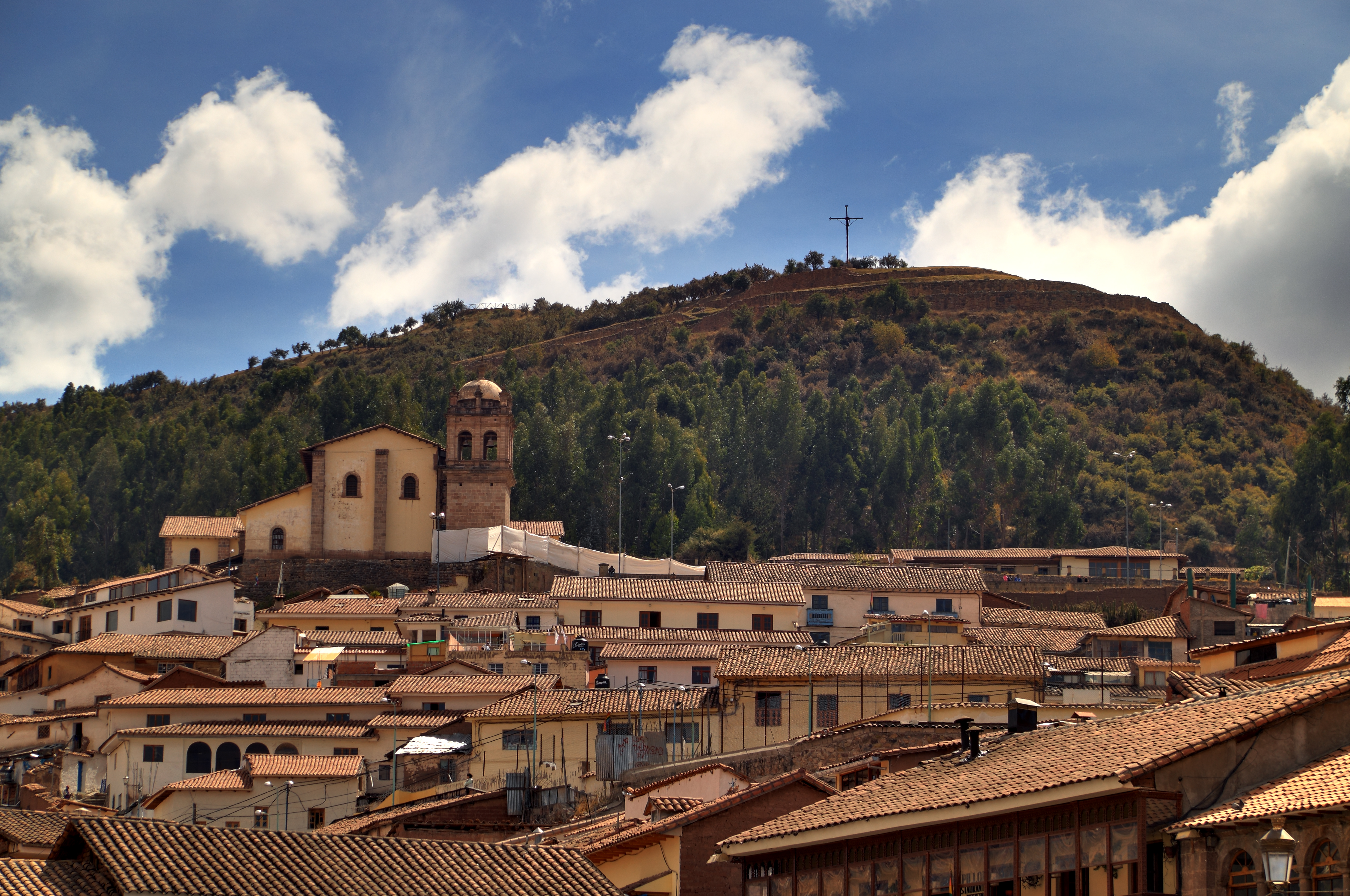 Please, have this description accessible to all by translating it in different languages.